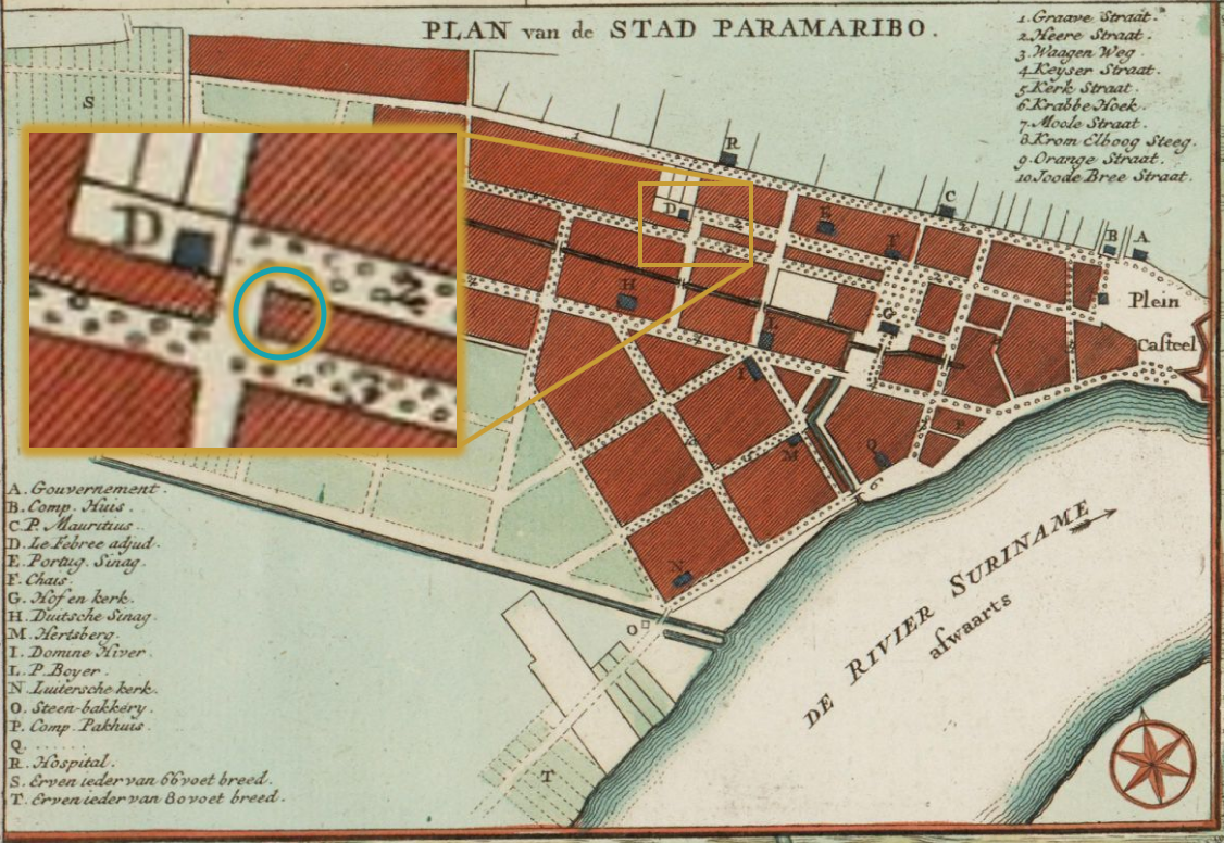 Location map of Samson's Paramaribo home, 1737